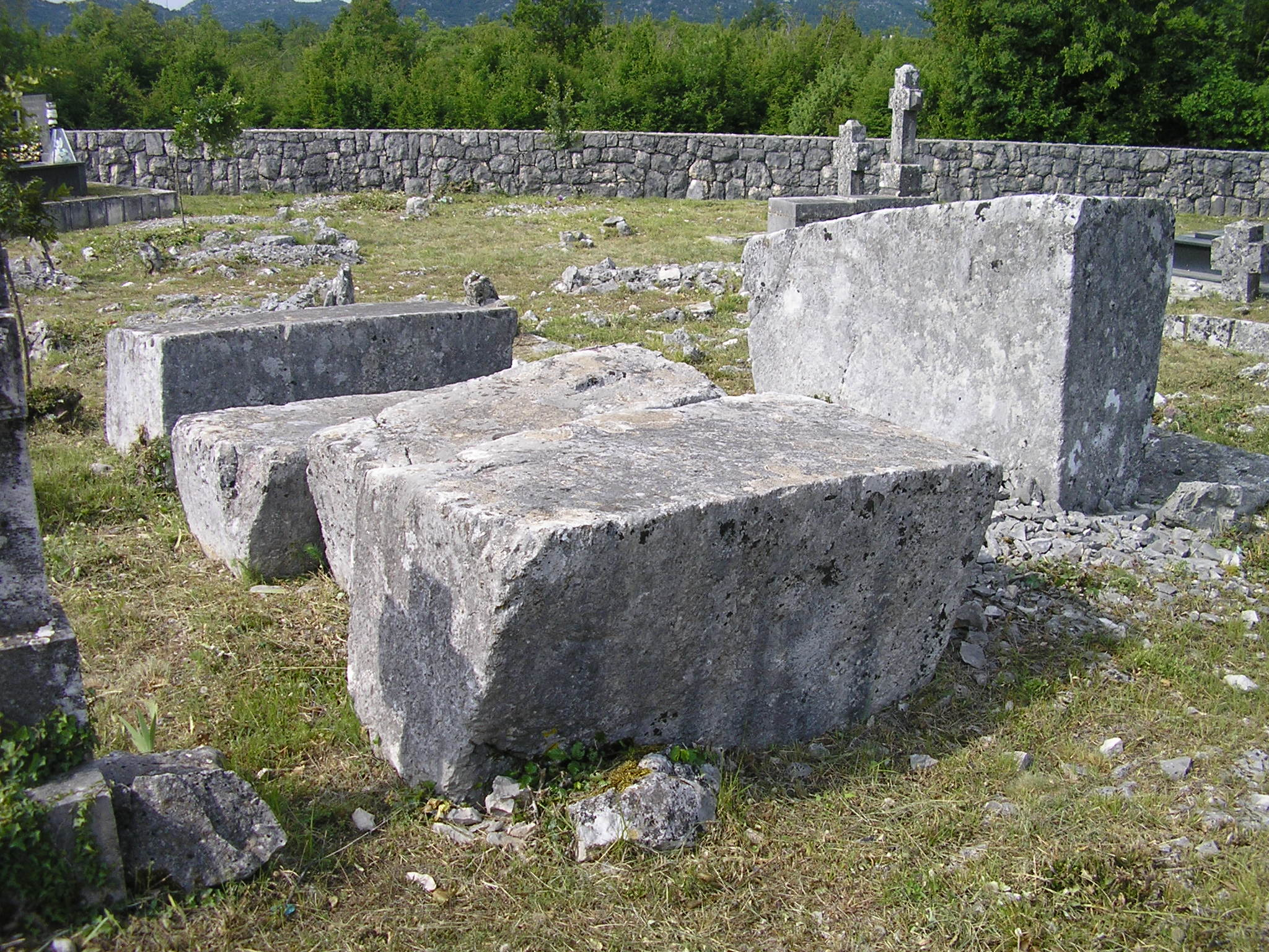 Stećci in Obaljeno cemetery